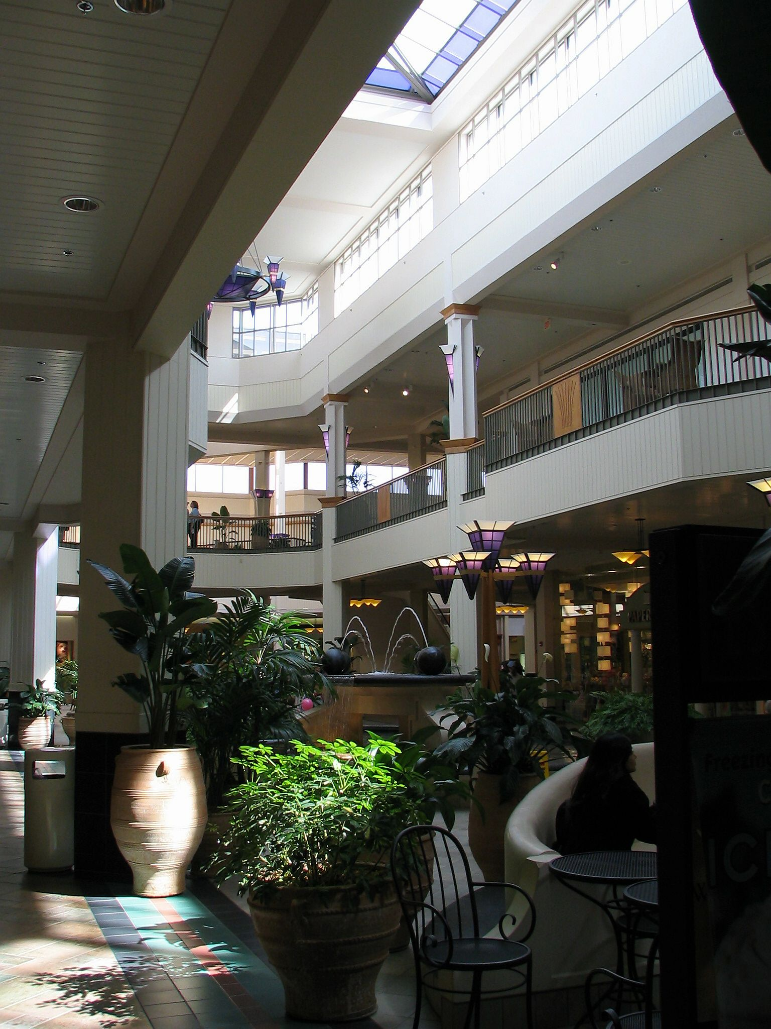 Inside of Perimeter Mall